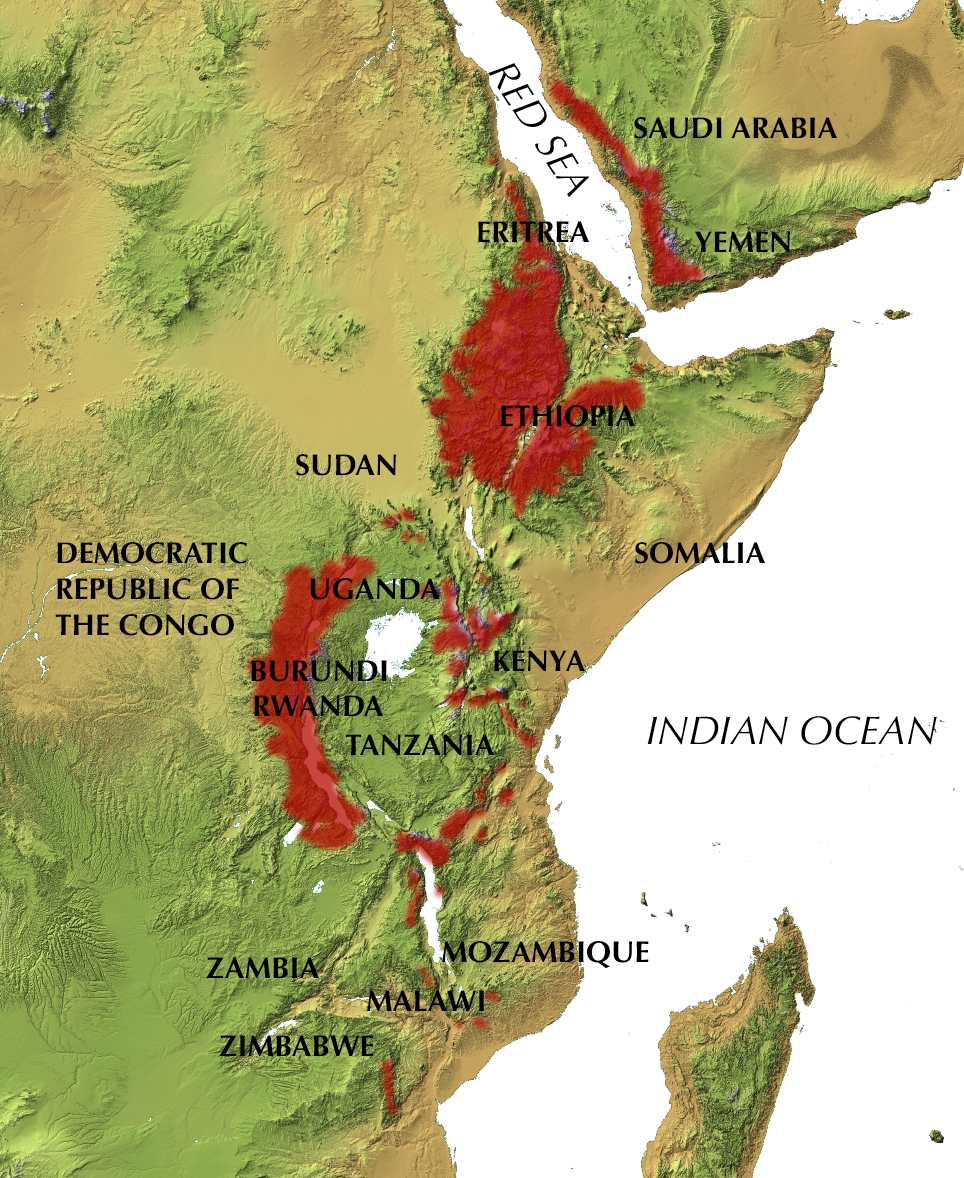 Eastern Afromontane Biodiversity Hotspot (EABH) mountain ranges.